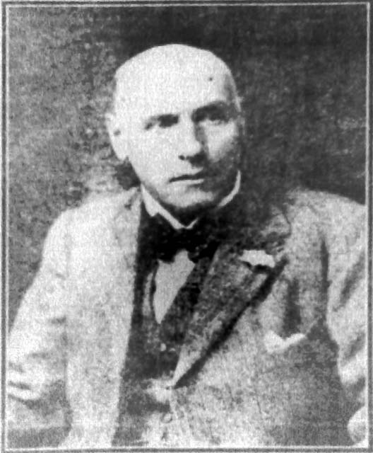 Sir Hugh Charles Clifford, GCMG, GBE (5 March 1866 – 18 December 1941) was a British colonial administrator. Among other appointments, he was Governor of the Straits Settlements between 1927 and 1930.